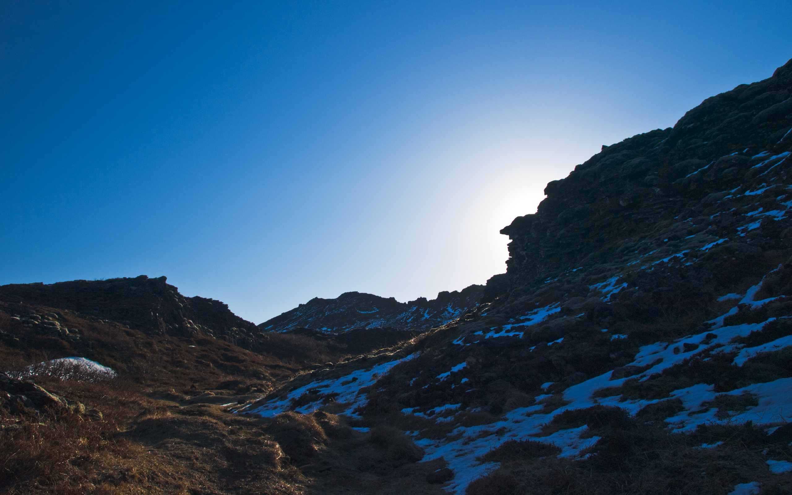 Thousands of years ago molten lava flowed through Búrfellsgjá. If you are so inclined, you can still see the profile of a petrified troll silhouetted against the sun. Replaced on July 16, 2008 with higher resolution. View On Black